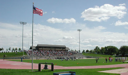 This photo of Concordia University, Nebraska's stadium/track on campus.